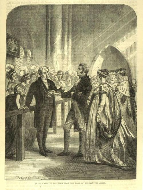 This is a picture showing Queen Caroline repulsed form the coronation of her husband, King George IV